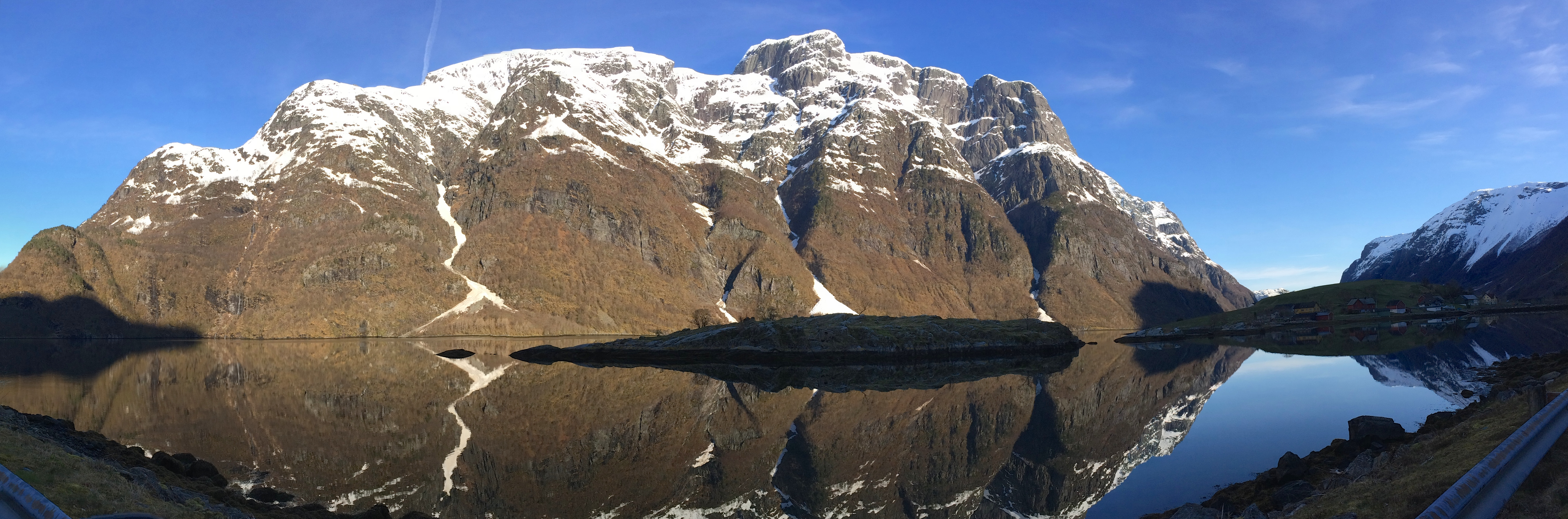 Fold-out-panorama of Hyefjorden in Sogn og Fjordane, Norway. April 20th, 2015. (iPhone panoramic photo, distortion may occur in details and continuity.)